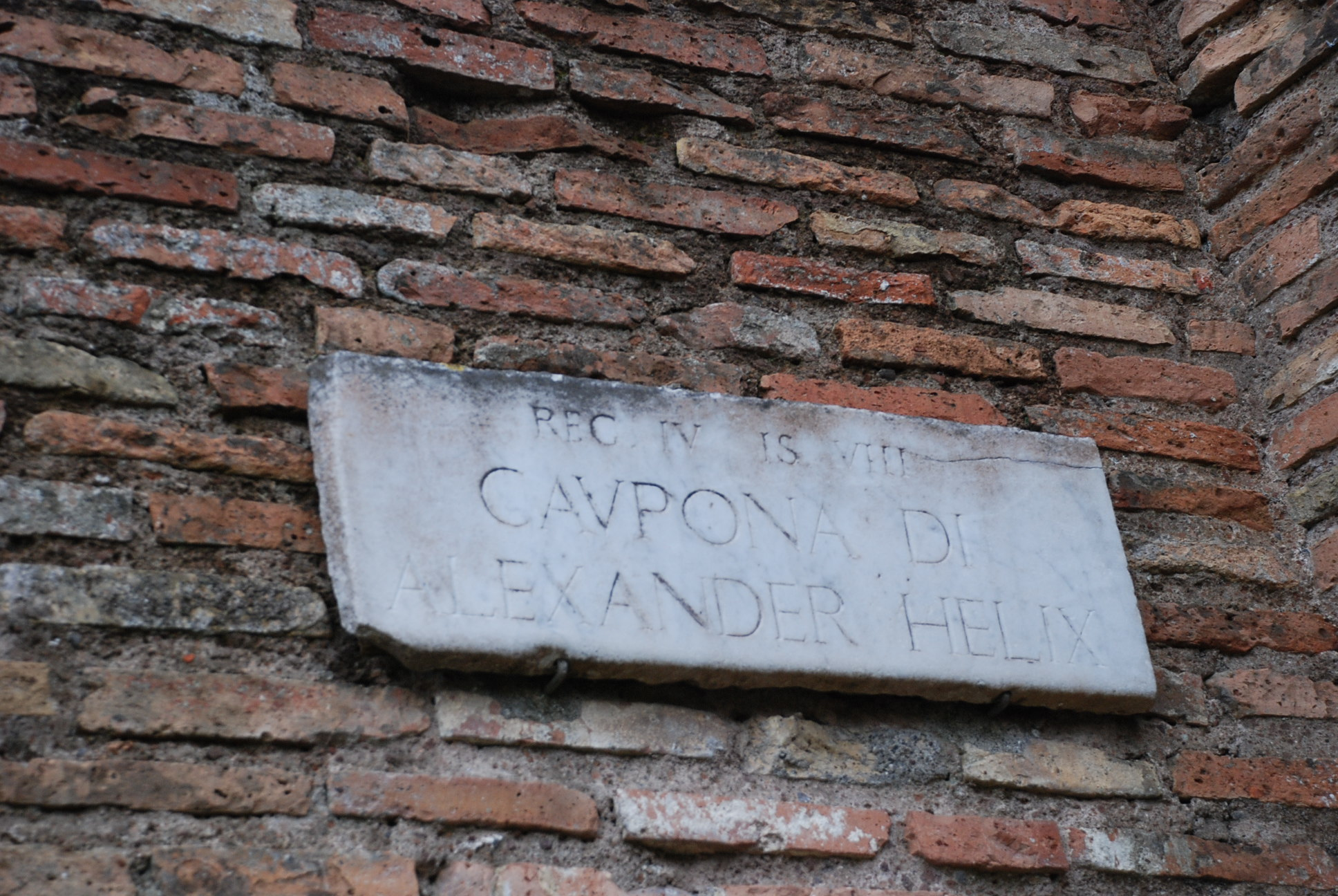 Ostia antica (archaeological site)